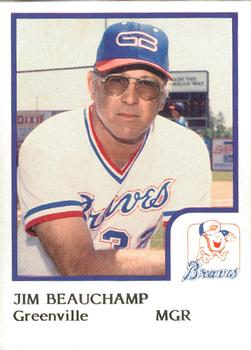 A baseball card of Jim Beauchamp from the 1986 ProCards Greenville Braves set.